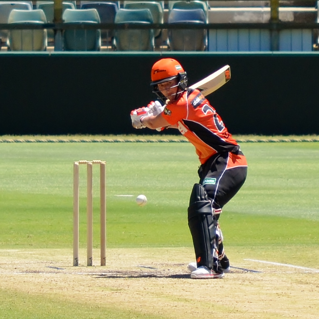 Charlotte Edwards on her way to 88 not out for Perth Scorchers (WBBL) against Sydney Thunder (WBBL) at the WACA Ground, Perth, Australia.